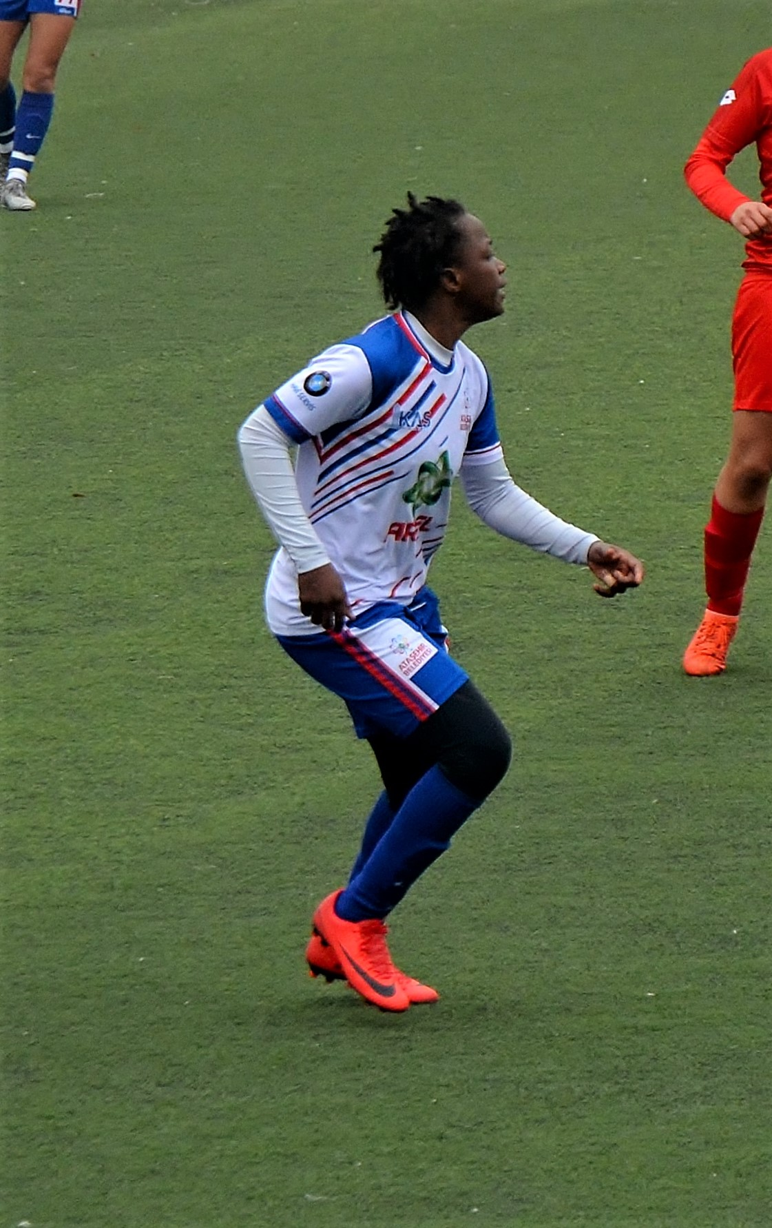 Henriette Akaba playing for Ataşehir Belediyesporı in the 2017-18 Turkish Women's FirstFootball League